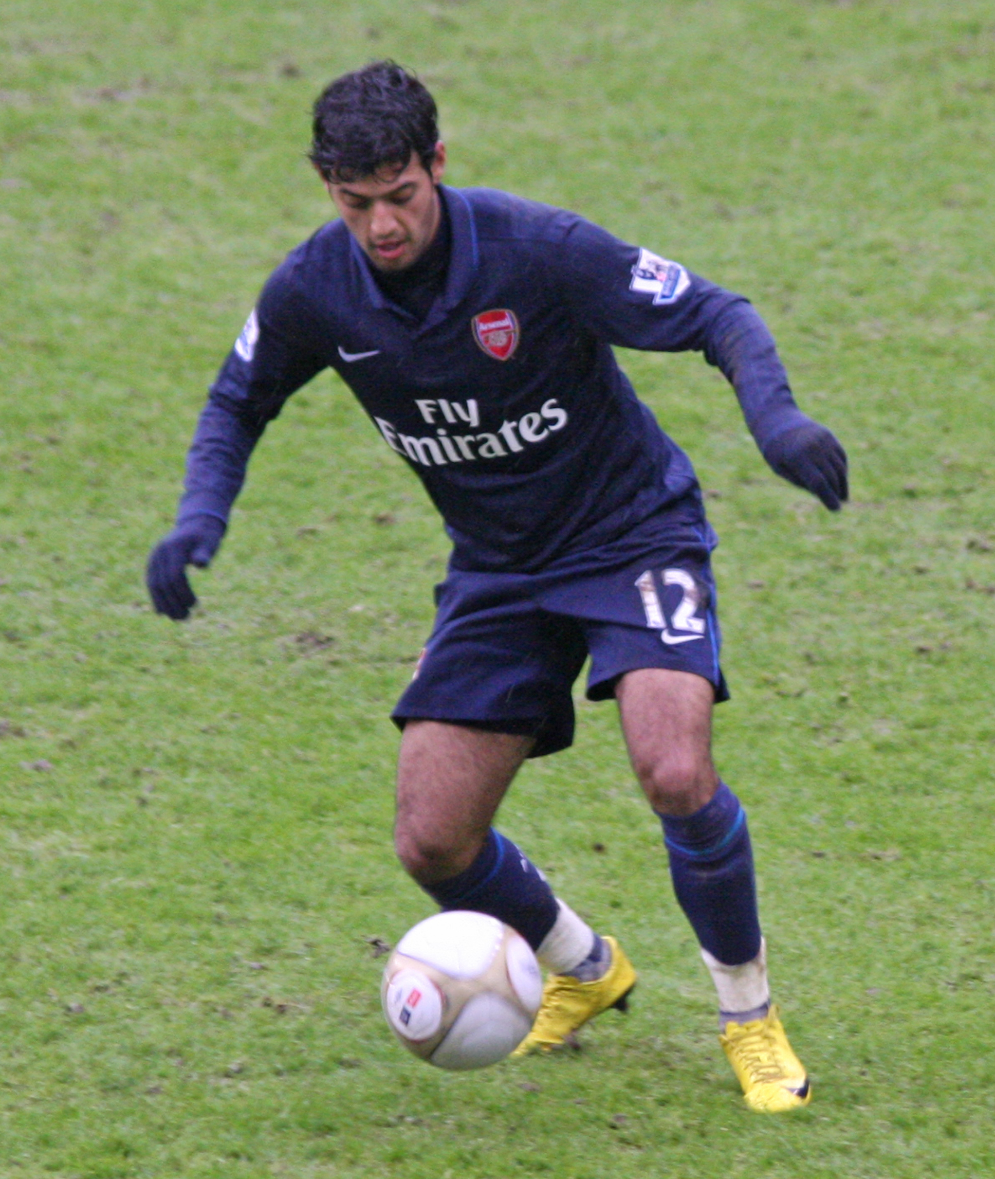 Stoke City FC V Arsenal 62